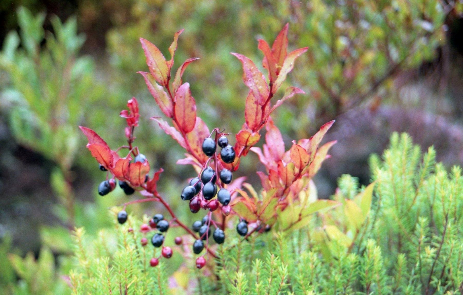 Vaccinium padifolium branch with berries from a visit to Encumenada in the second week of October 1999.